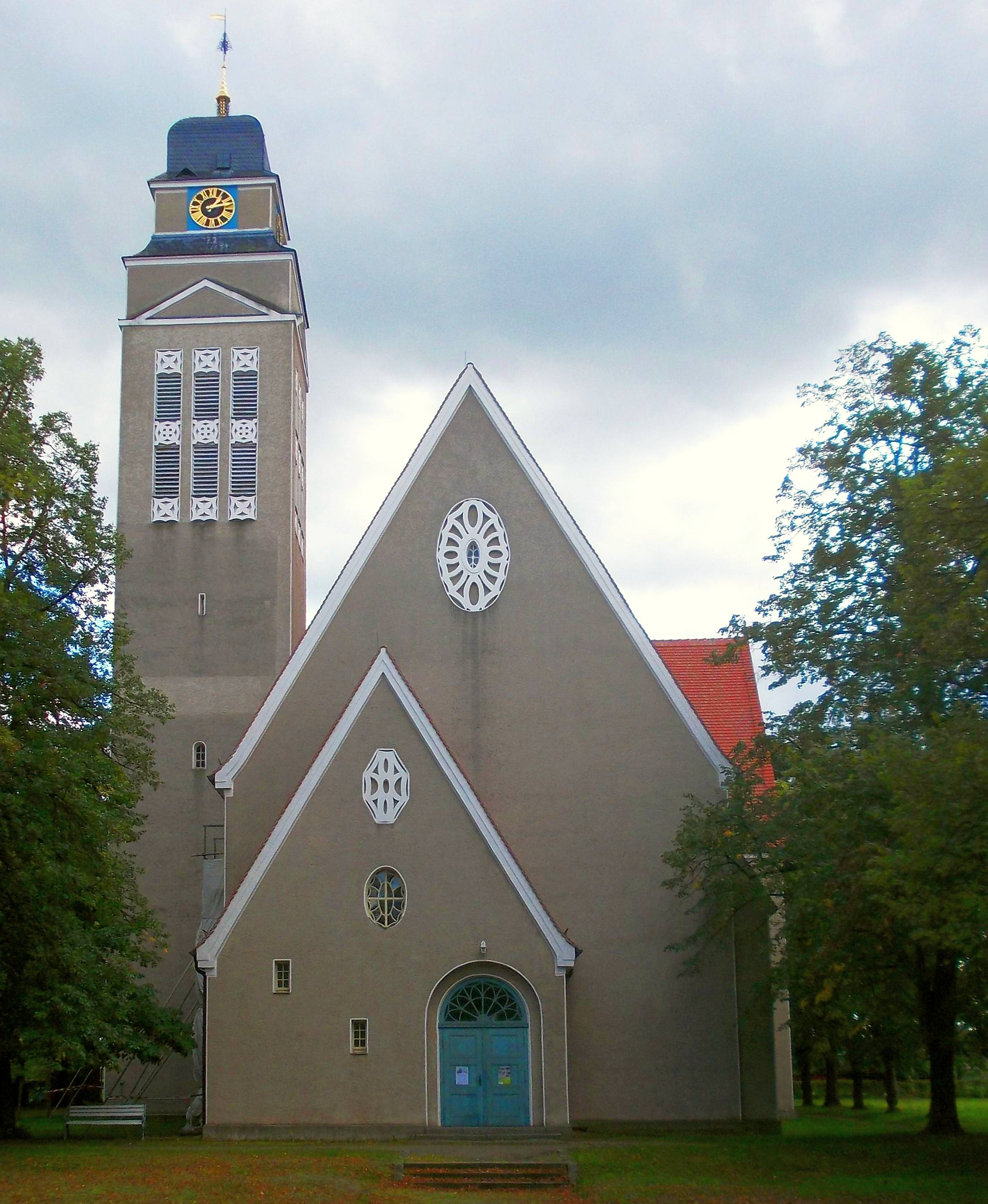 Protestant Jesus Christ Church in Falkenberg/Elster (Elbe-Elster district, Brandenburg)